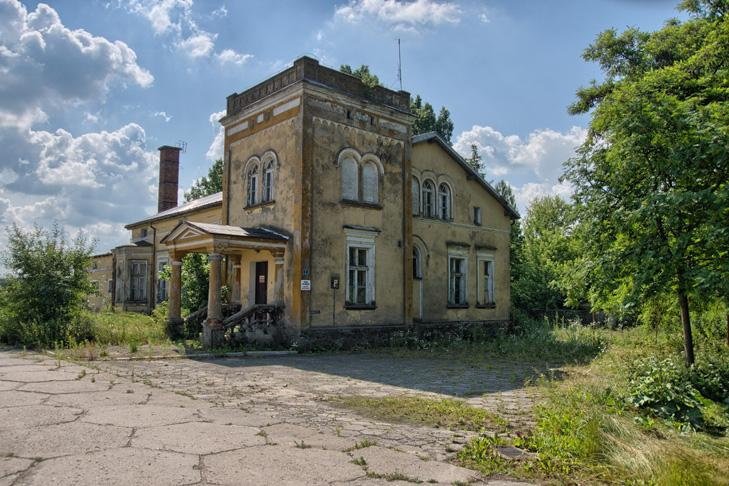 Kawęczyn Dwór Albrechtów